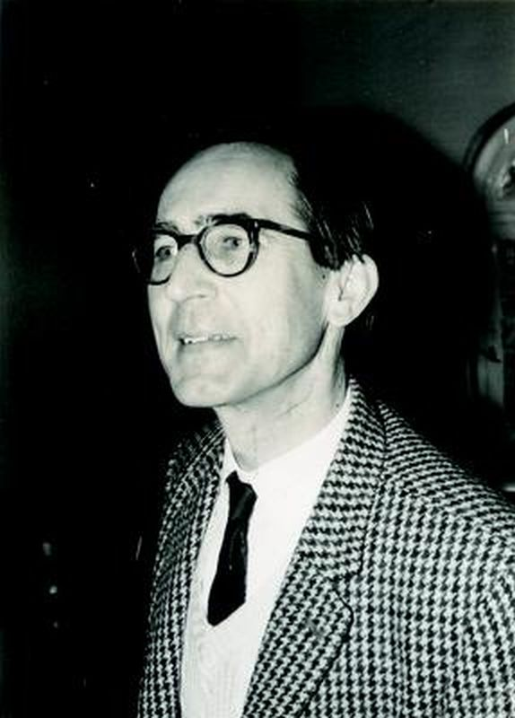 David G. Kendall, Oberwolfach 1971